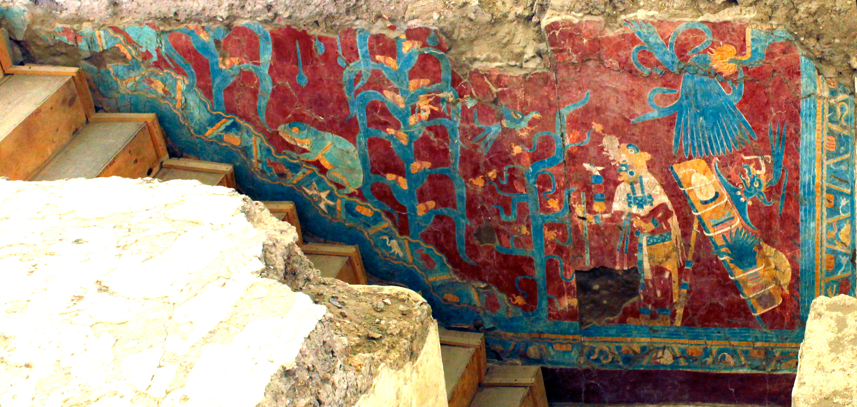 Mural in Caxactla depicting at the staircase leading to the Templo Rojo